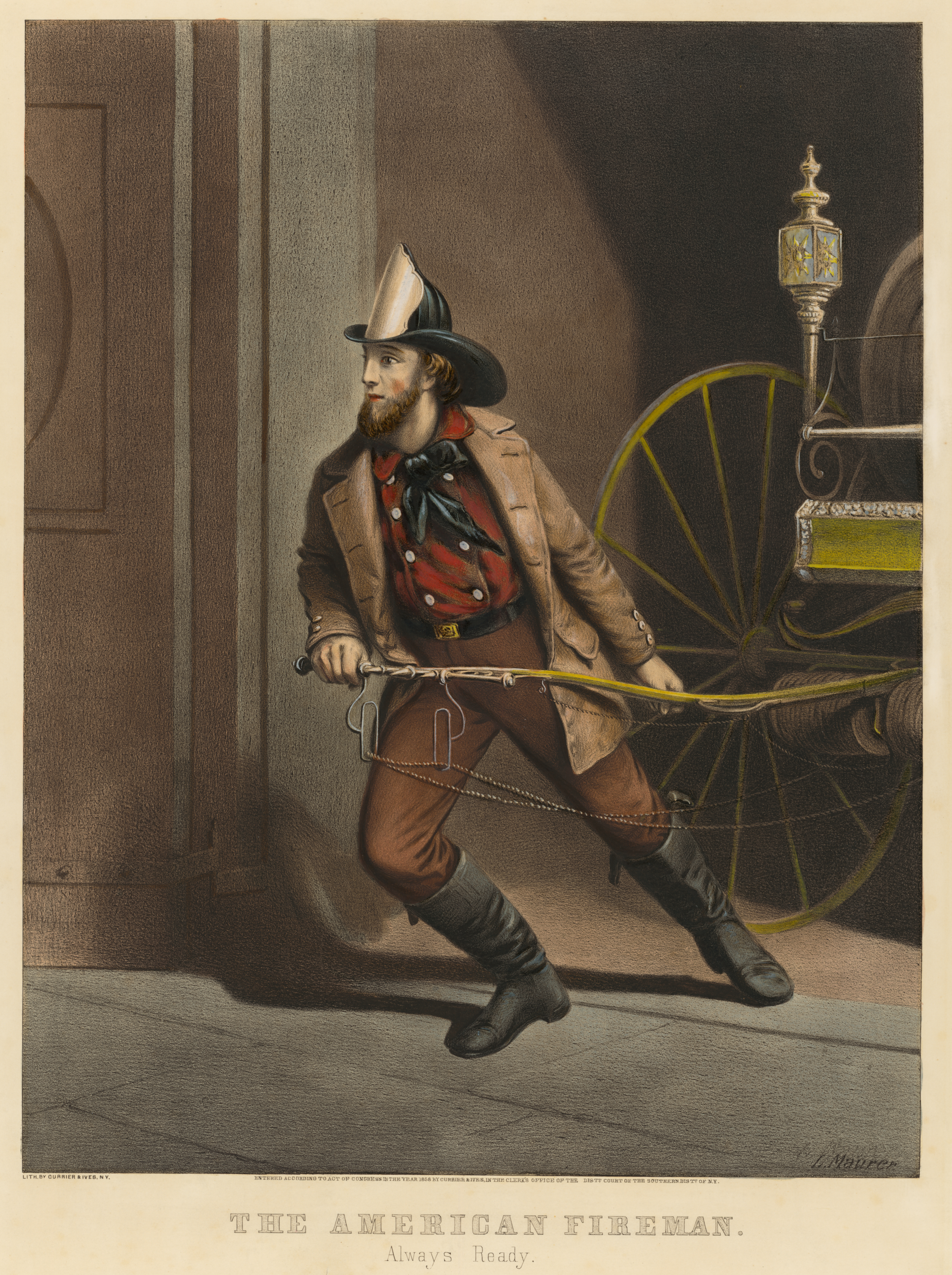 "The American Fireman. Always Ready." Hand-colored lithograph by German-born American printmaker Louis Maurer (1832-1932). Exhibited at "American Treasures of the Library of Congress", 2002.